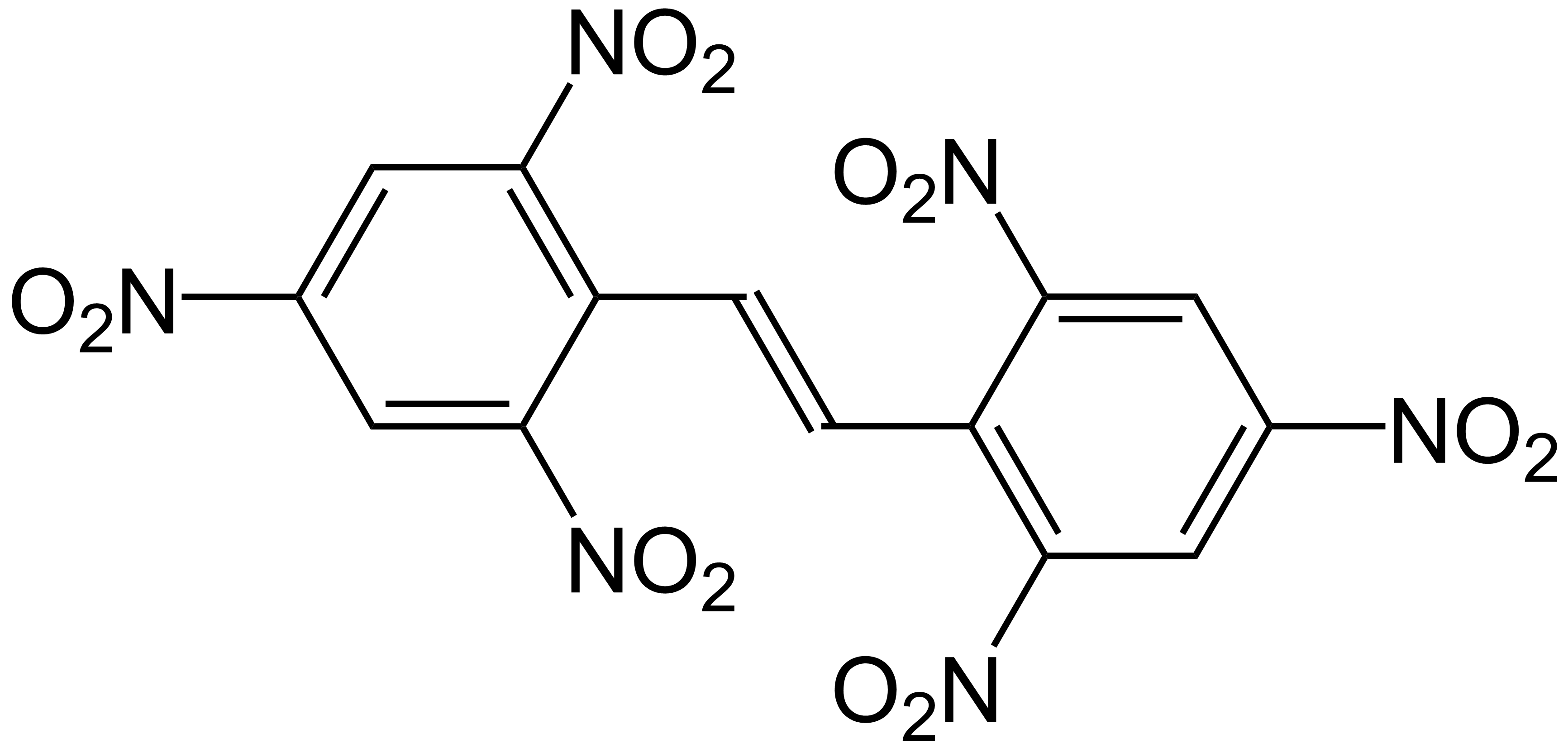 Chemical structure of Hexanitrostilbene